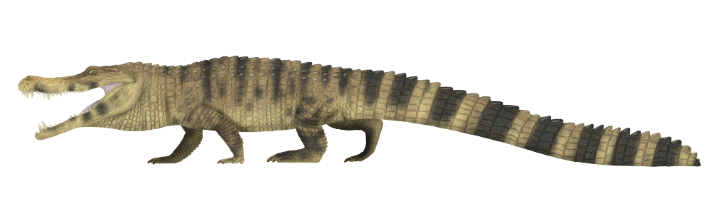 A profile view of Deinosuchus riograndensis